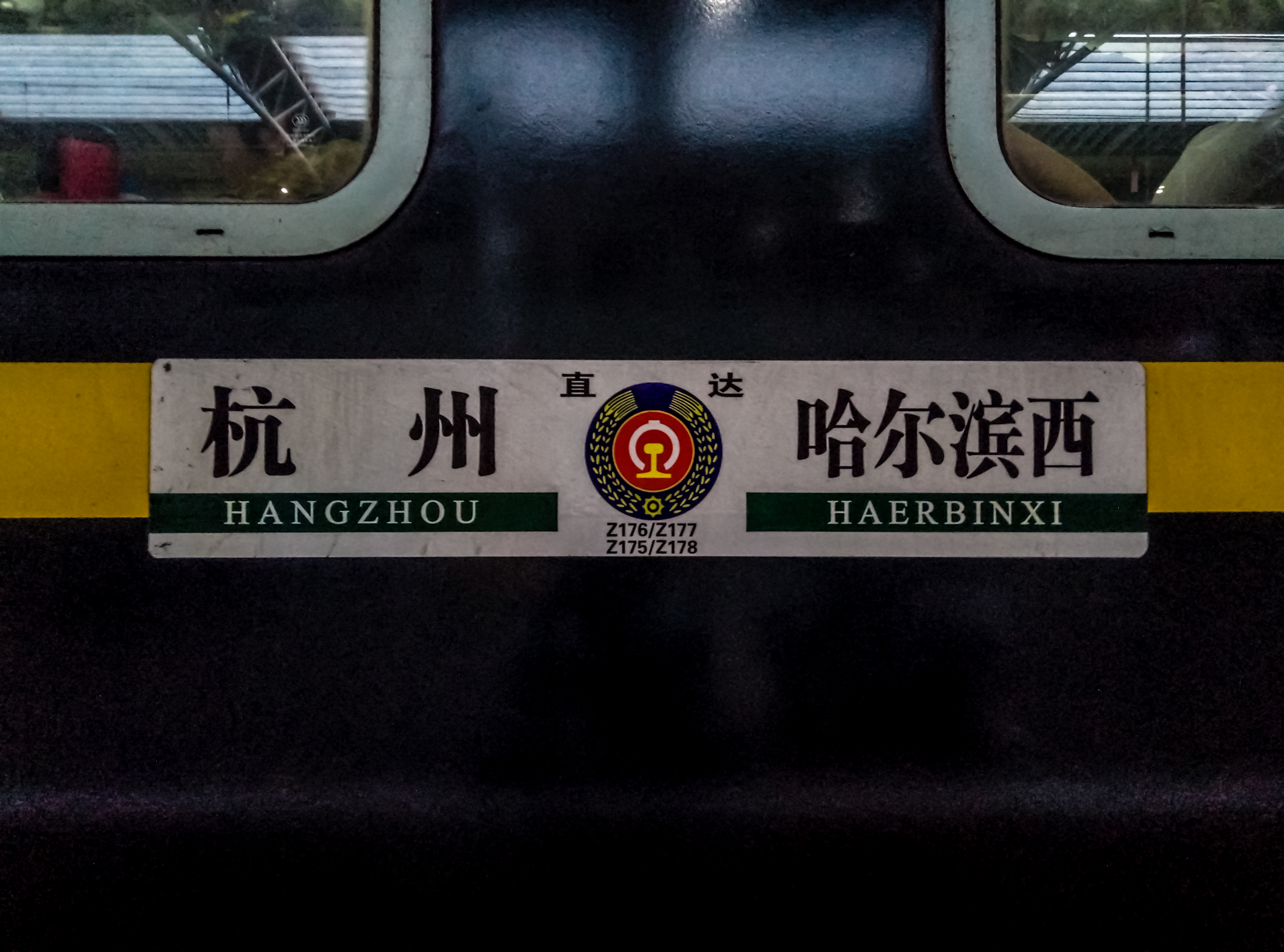 Z175 6 7 8 Information Board